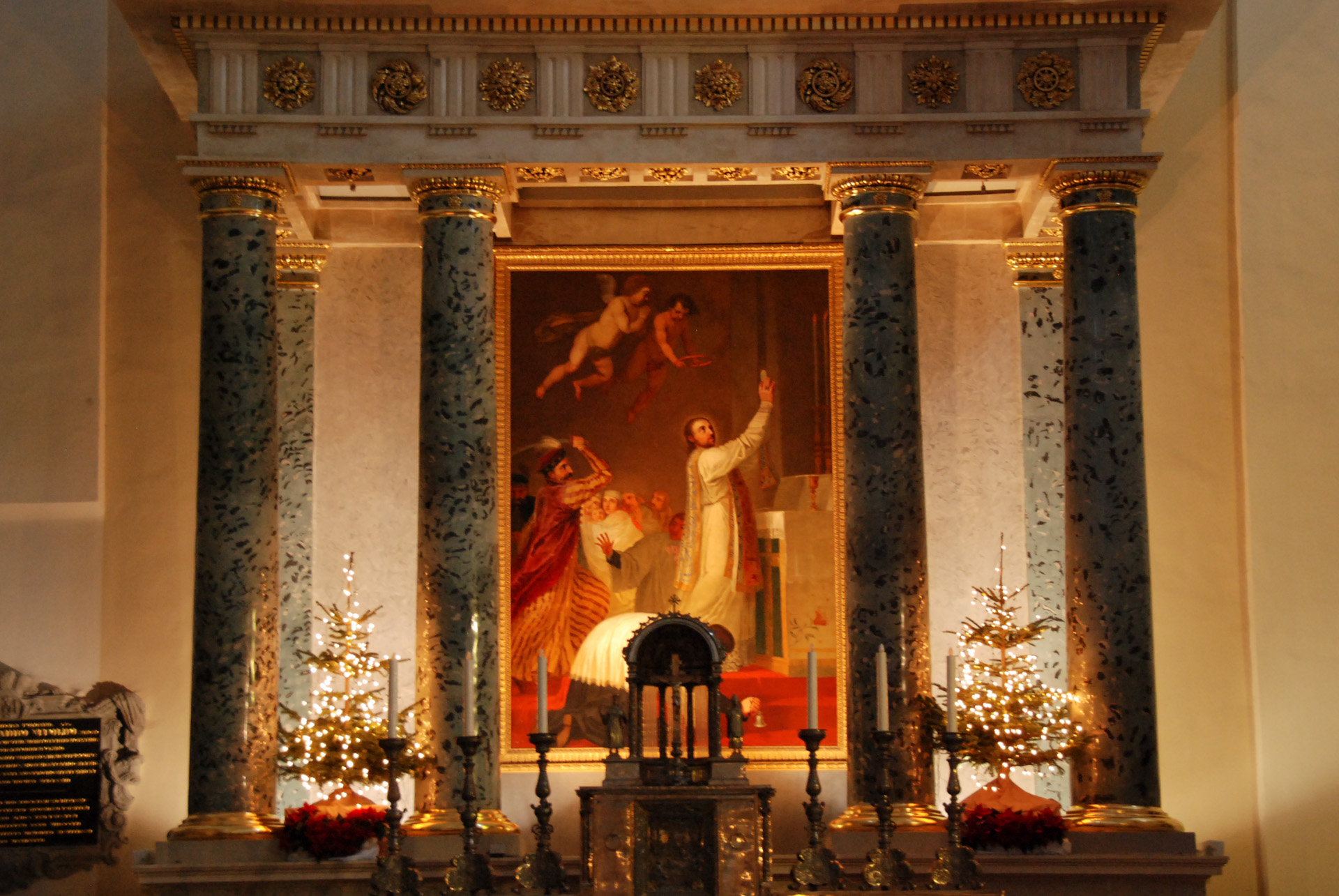 Altar of Vilnius Cathedral